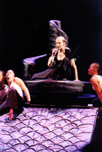 Picture taken at the concert